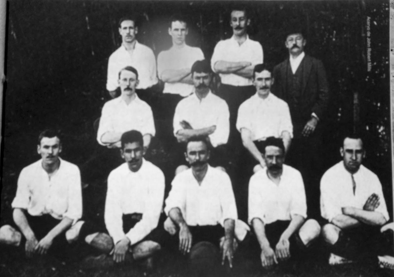 The Sao Paulo Athletic Clube (SPAC) football team in 1904. Pioneer Charles Miller is seated in the middle.